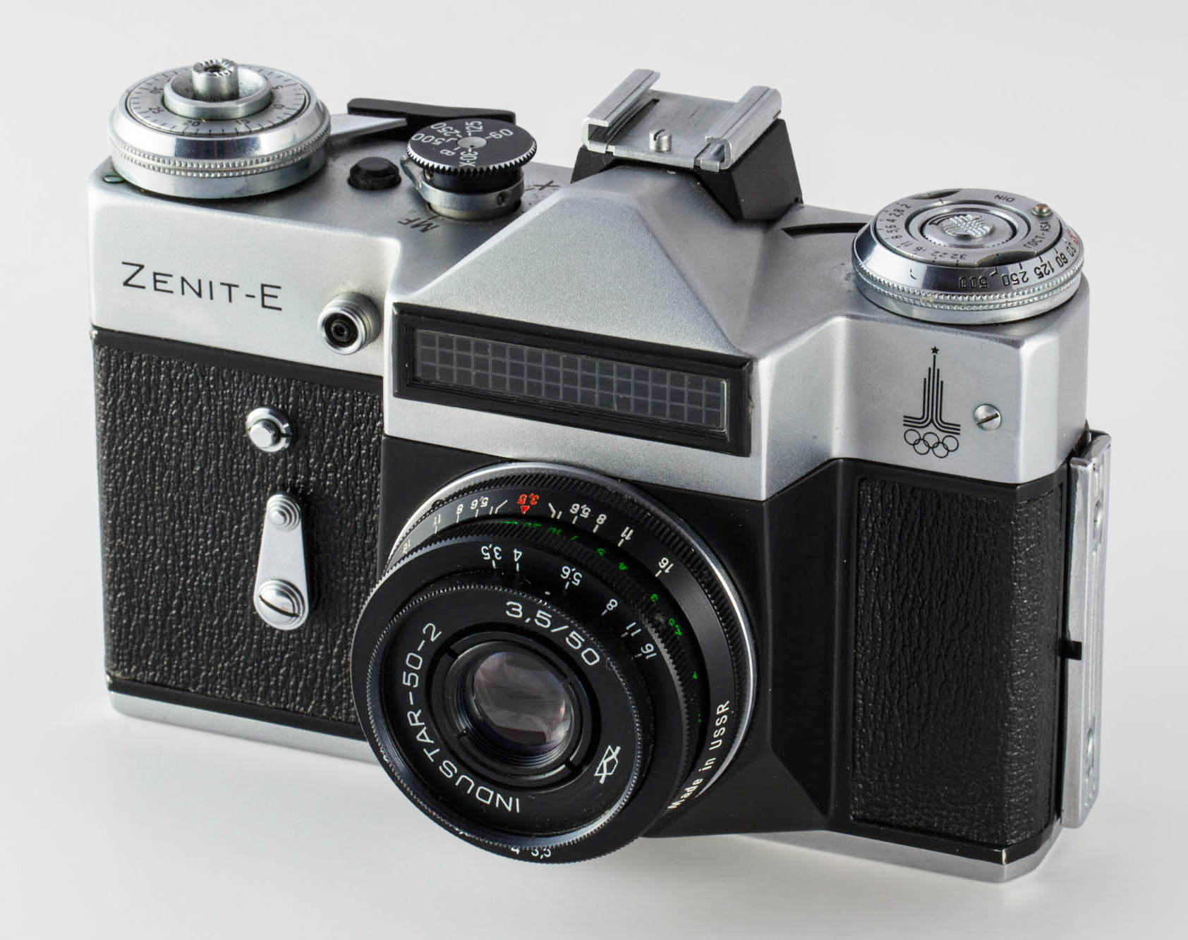 Zenit-E 35mm Camera with Industar 50mm lens